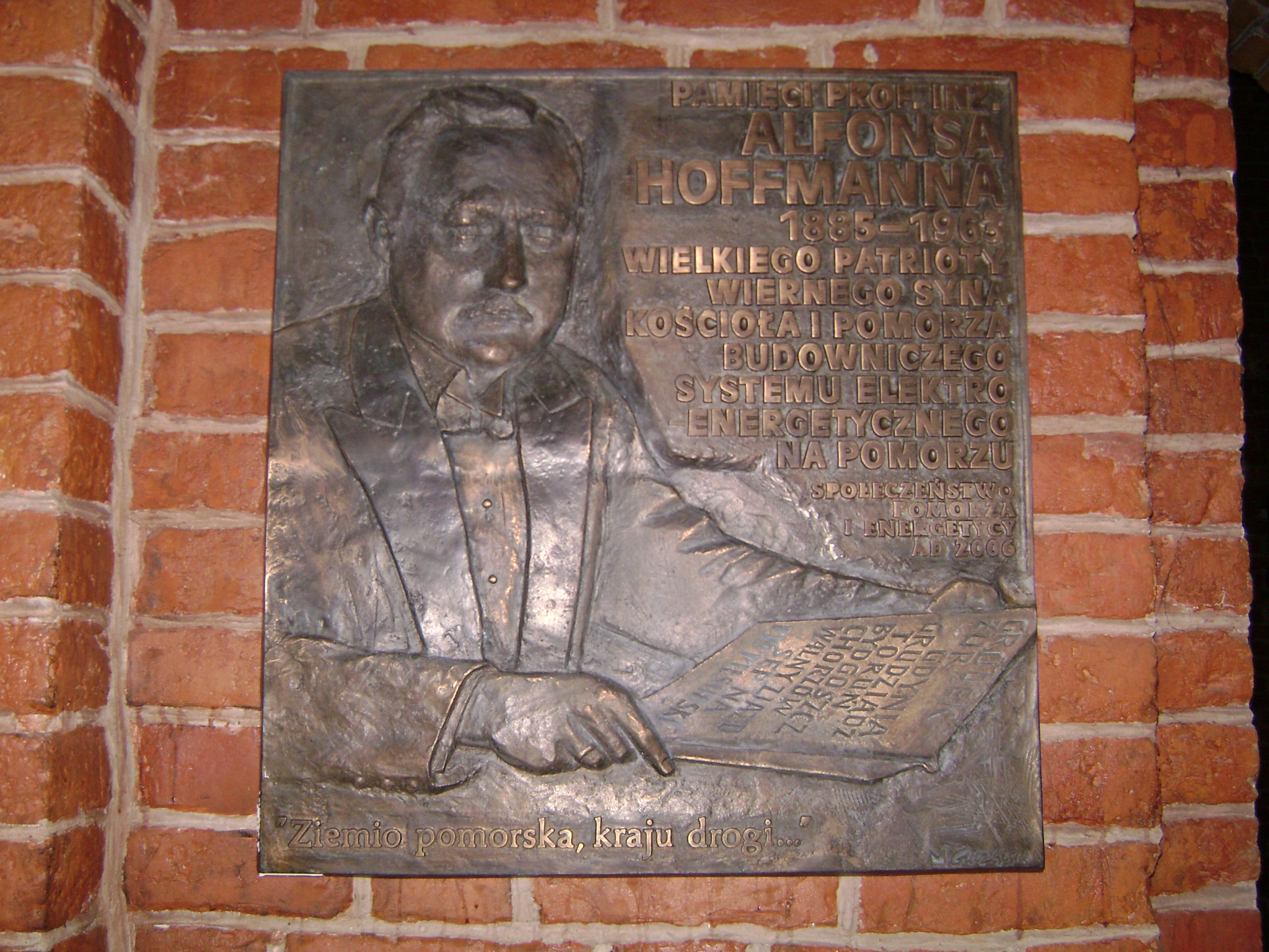 Plaque of Alfons Hoffmann in Grudziądz, St. Nicholas Church